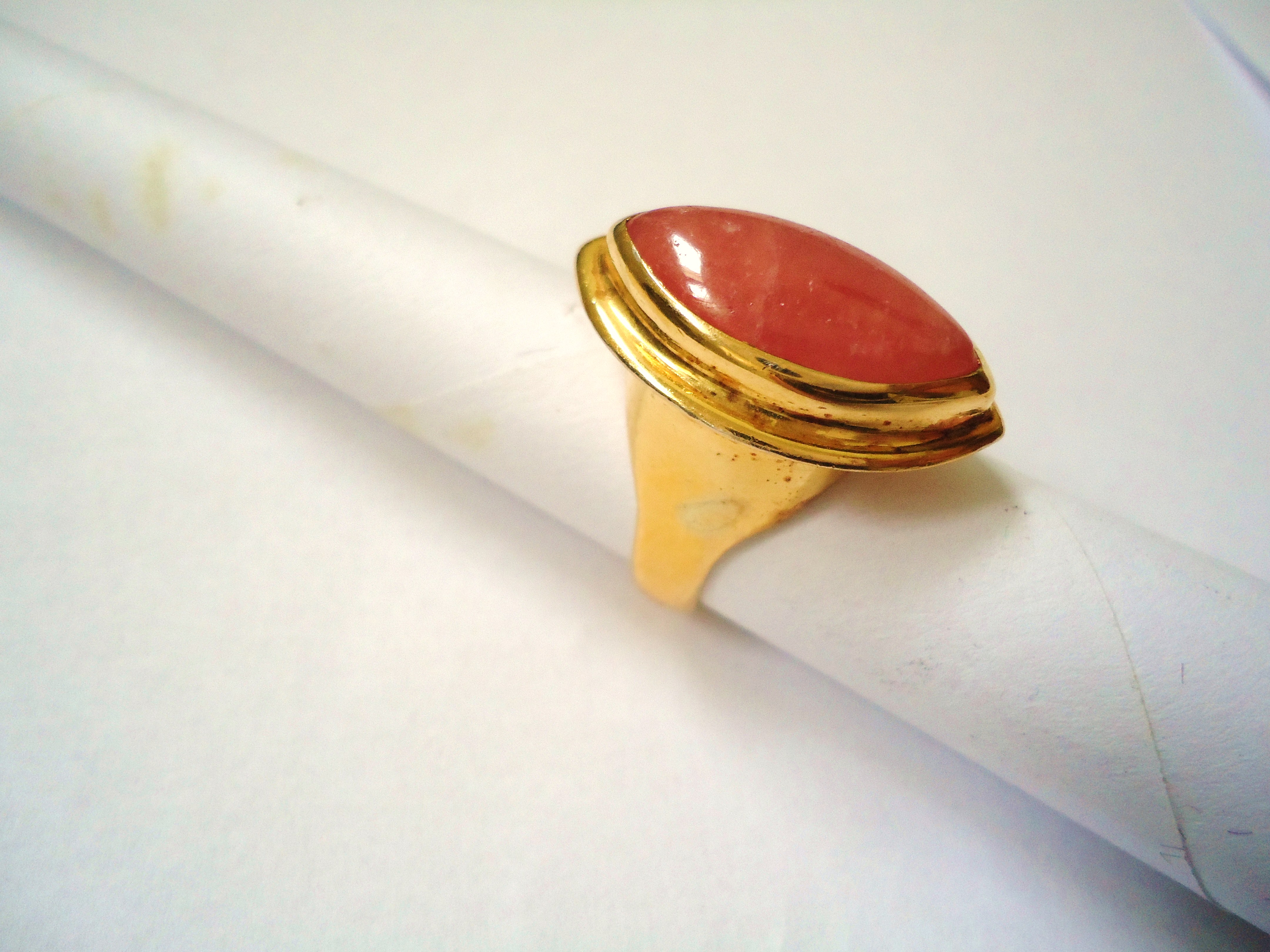 Gold and rhodochrosite ring. Made by Mauro Cateb, Brazilian jeweler.